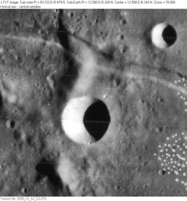 The rille passing through the upper part of the picture is Rima Ariadaeus. To its north, 7-km Silberschlag A is visible in the upper right. The ridge to the north of Silberschlag is regarded as part of the east rim of 25-km Silberschlag P. The ridge to the south is not regarded as part of any named crater.